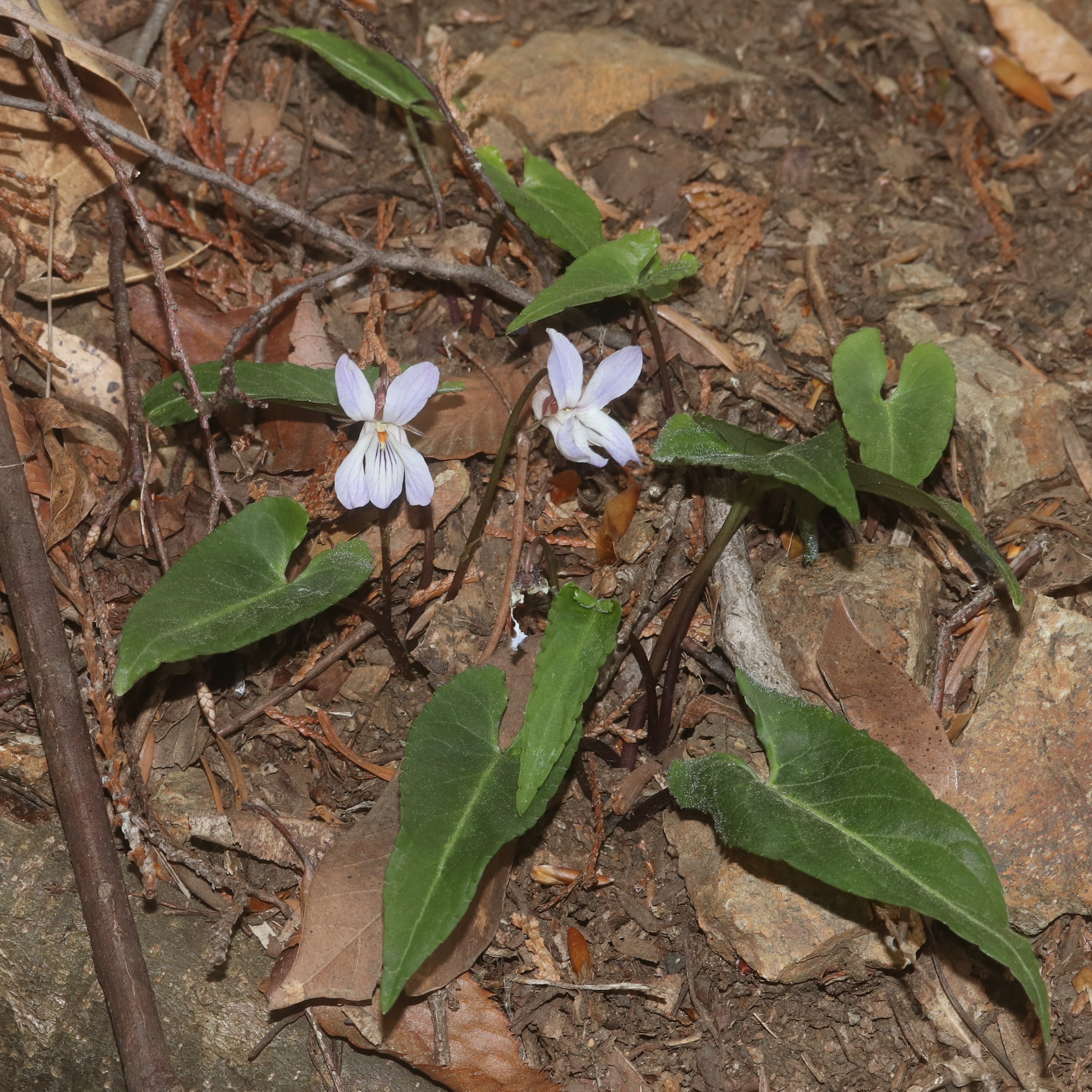 Viola bissetii in Mount Fujiwara, Inabe, Mie Prefecture, Japan.